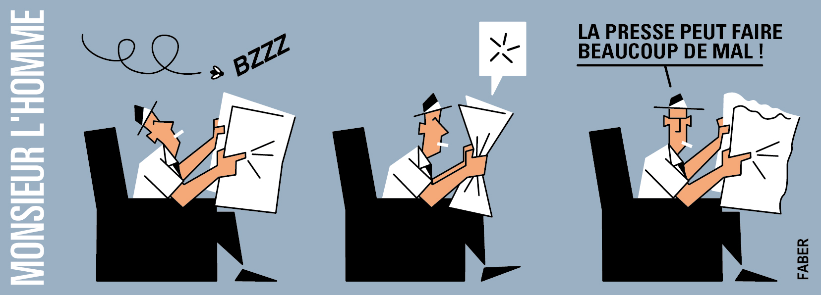 André Faber, "Monsieur L'Homme", The Fly. (Trad: "The press may deeply hurt!")